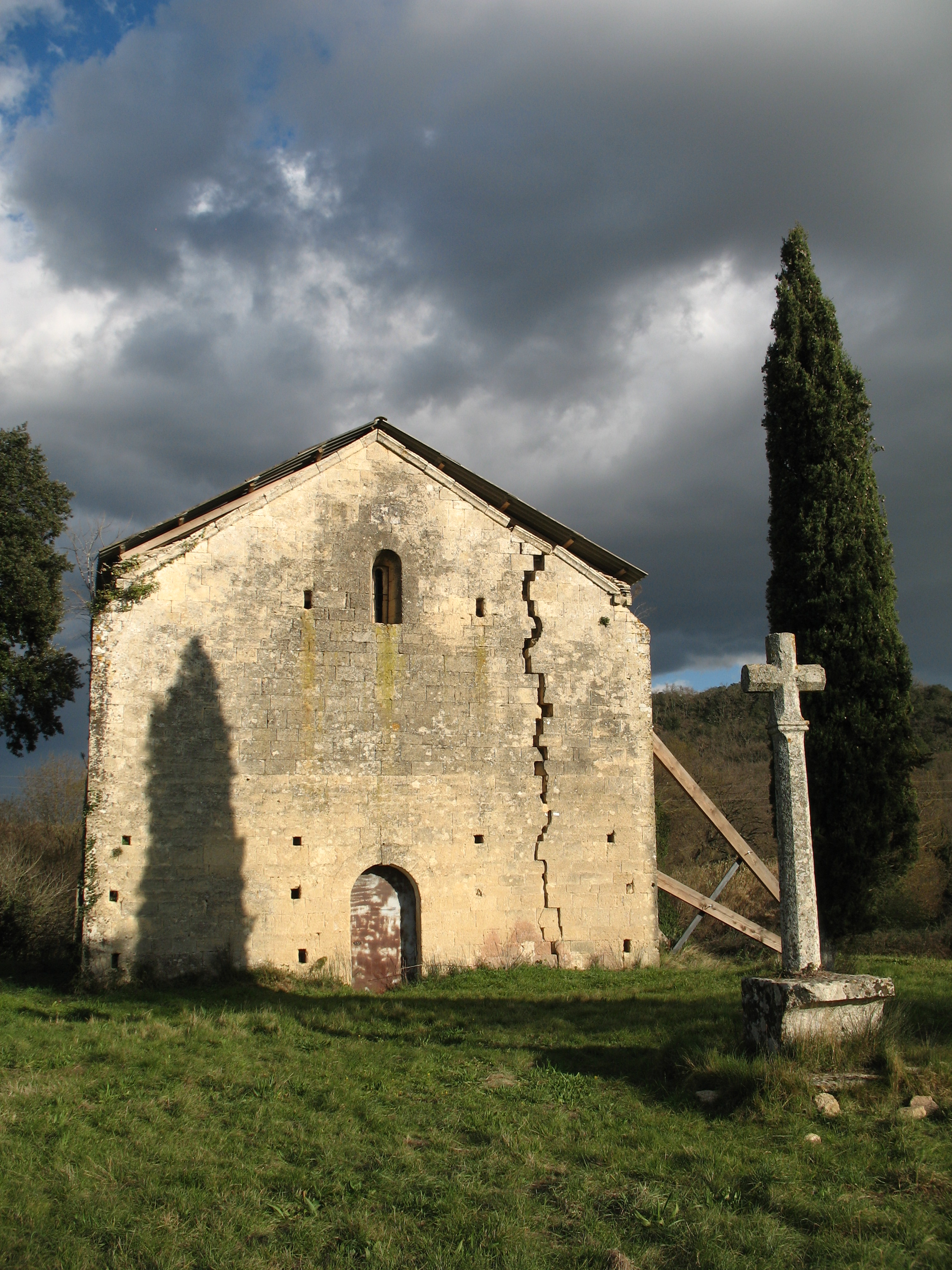 Front view of the Saint-Peter chapel